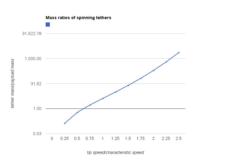 Diagram of the payload:tether ratio of a spinning bolus (space) tether